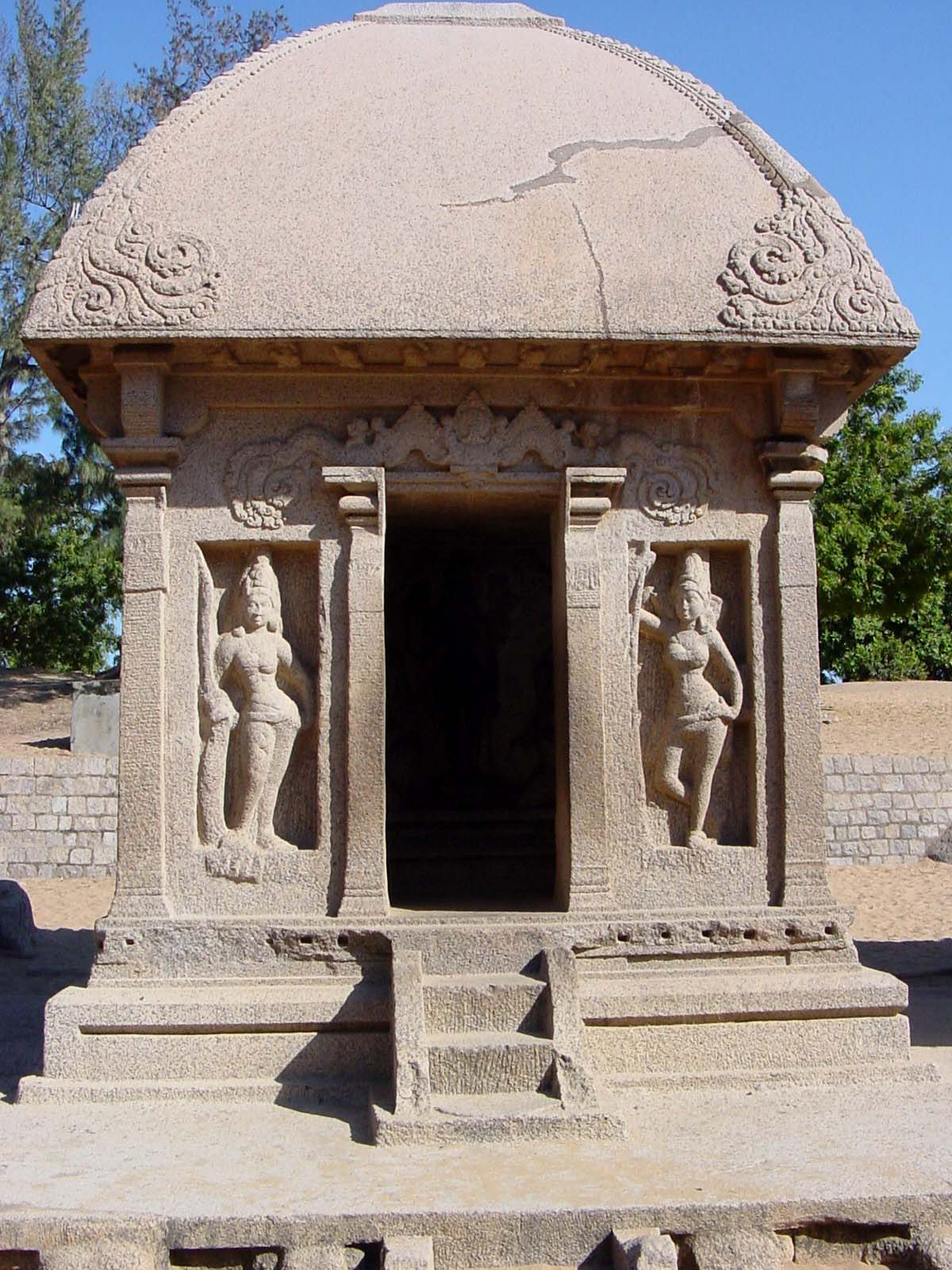 Draupadi Ratha, Mamallapuram Draupadi, the smallest and simplest ratha, is formed as a bangla hut. It is occupied by the goddess Durga, whose representation decorates the outside and inside of the shrine. Two shalabhanjikas guard the doorway, and a makara arch is carved above the doorway